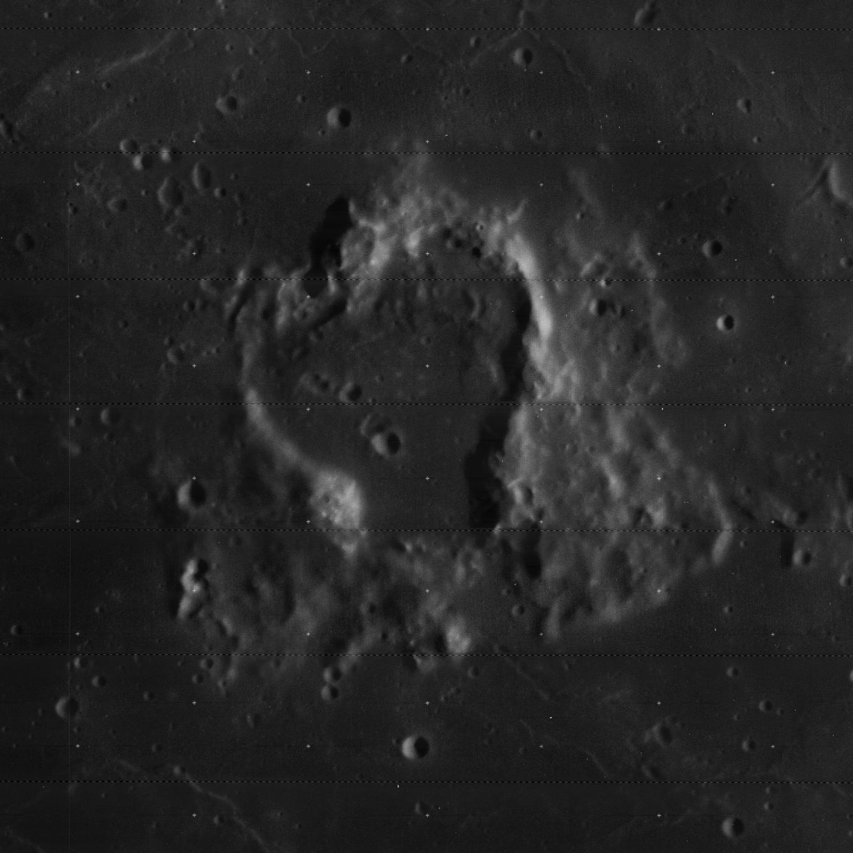 Wolf, on the moon.